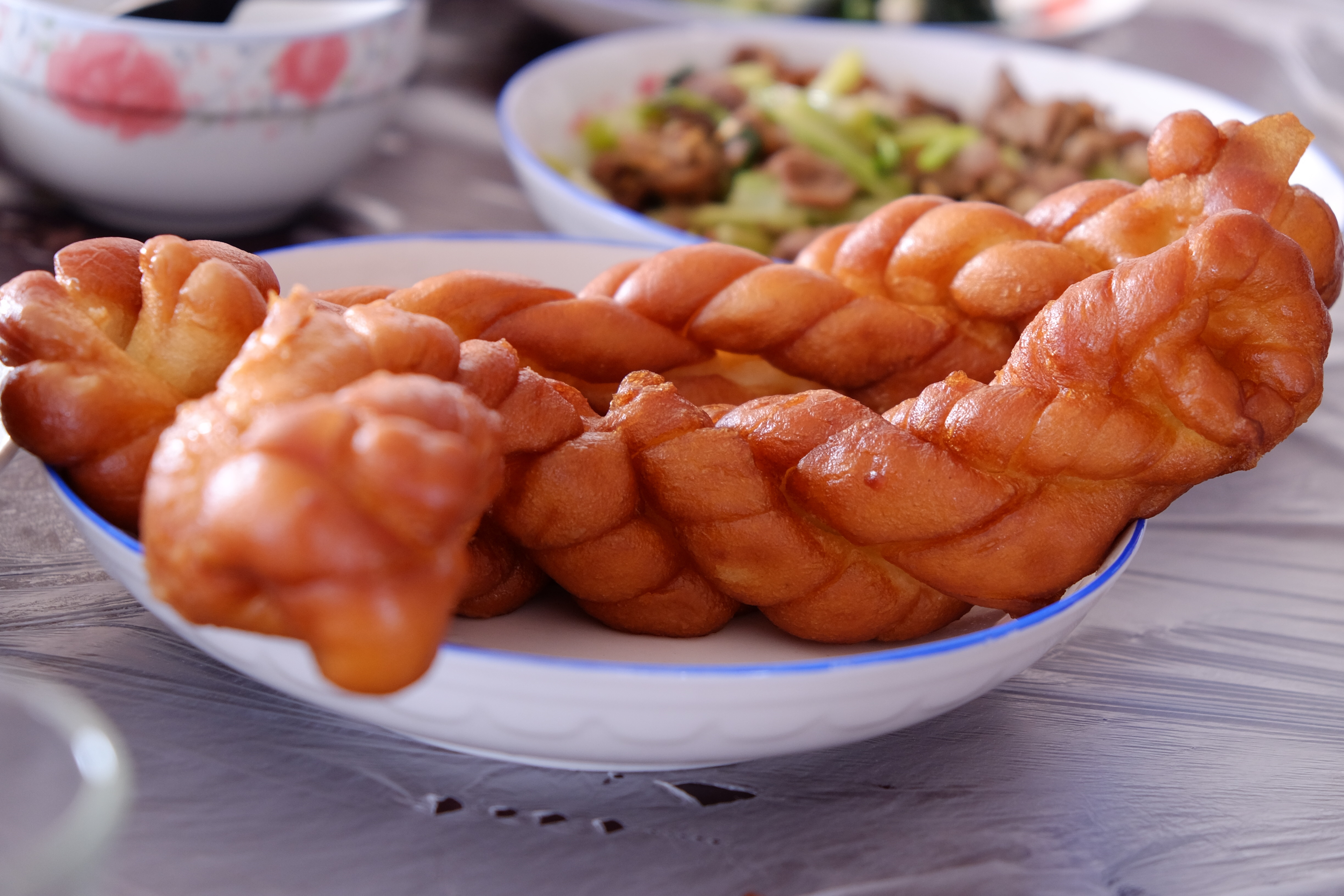 Mahua in Changling, Jilin